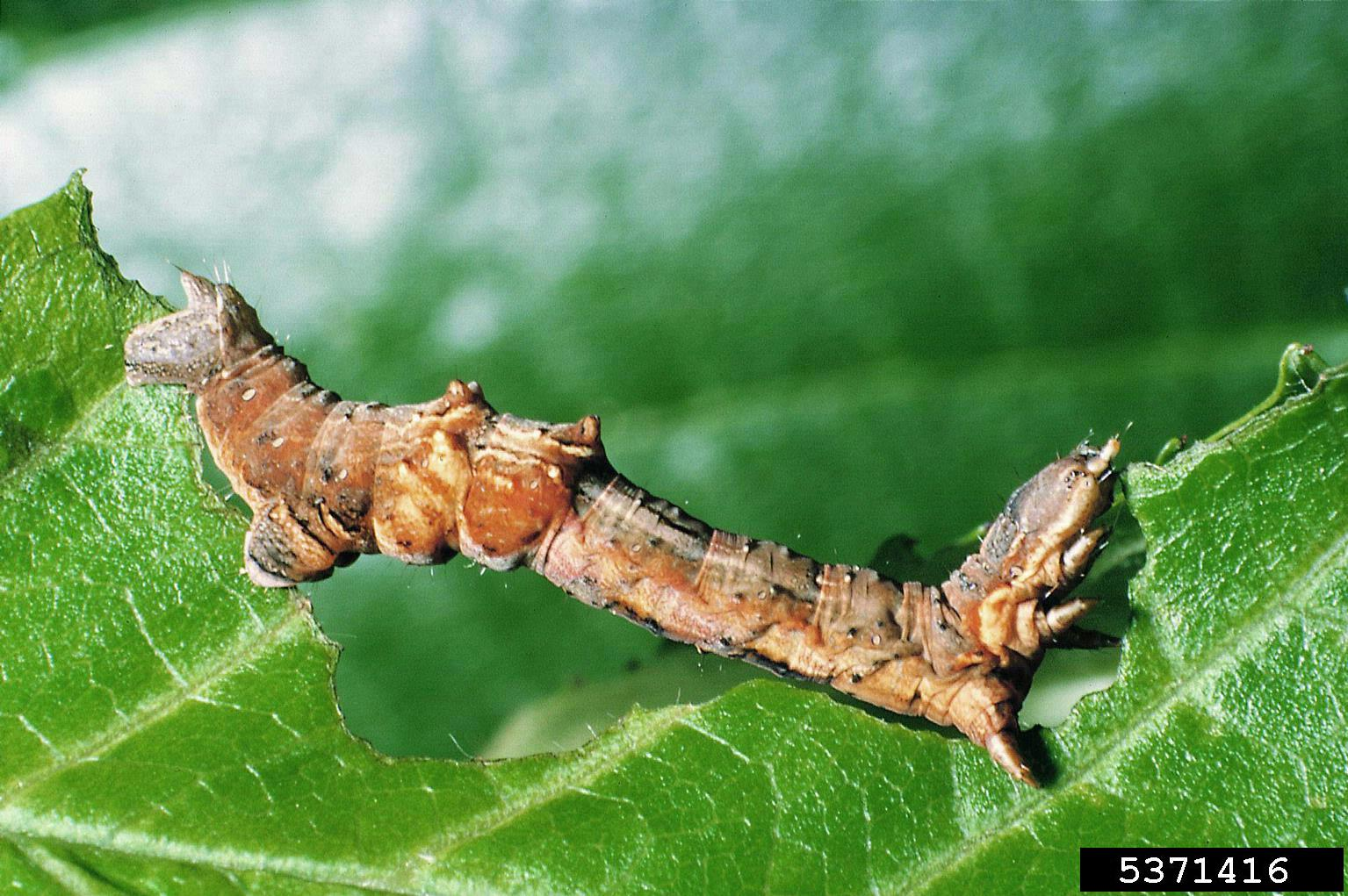 Caterpillar of Selenia dentaria